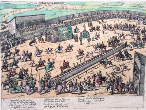 Diederich Graminaeus (1550-1610). Beschreibung derer Fürstlicher Güligscher ec. Hochzeit (Johann Wilhelm von Jülich-Kleve-Berg ∞ Jakobe von Baden-Baden, Hochzeit in Düsseldorf im Jahre 1585), Köln 1587